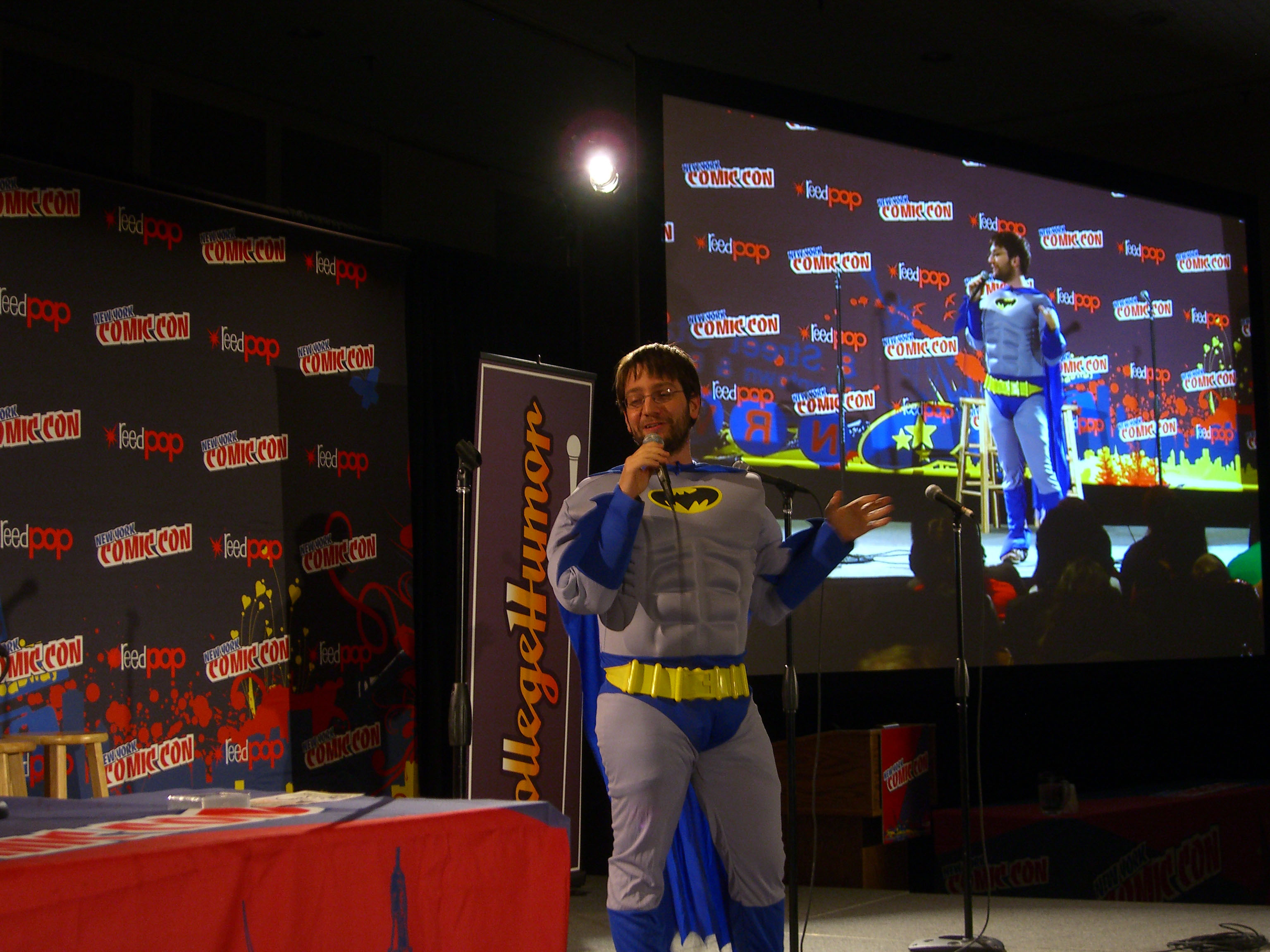 Comedic writer/actor Jeff Rubin at the CollegeHumor presentation on Day 2 of the 2012 New York Comic Con, Friday October 12, 2012 at the Jacob K. Javits Convention Center in Manhattan. This photo was created by Luigi Novi. It is not in the public domain, and use of this file outside of the licensing terms is a copyright violation.